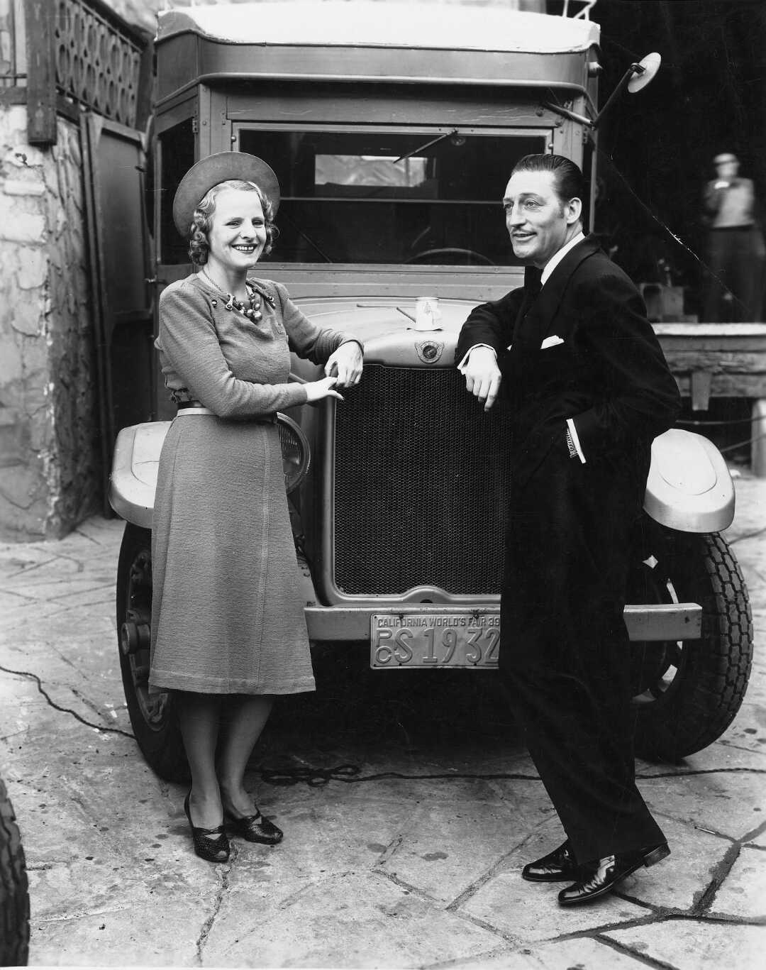 Pictured here with Warren William who is making, for Columbia, "The lone wolf strikes", is Mrs Hedda Dyson, Editor of the N.Z. Women's Weekly. (Alexander Turnbull Library PAColl-3861-31-02)